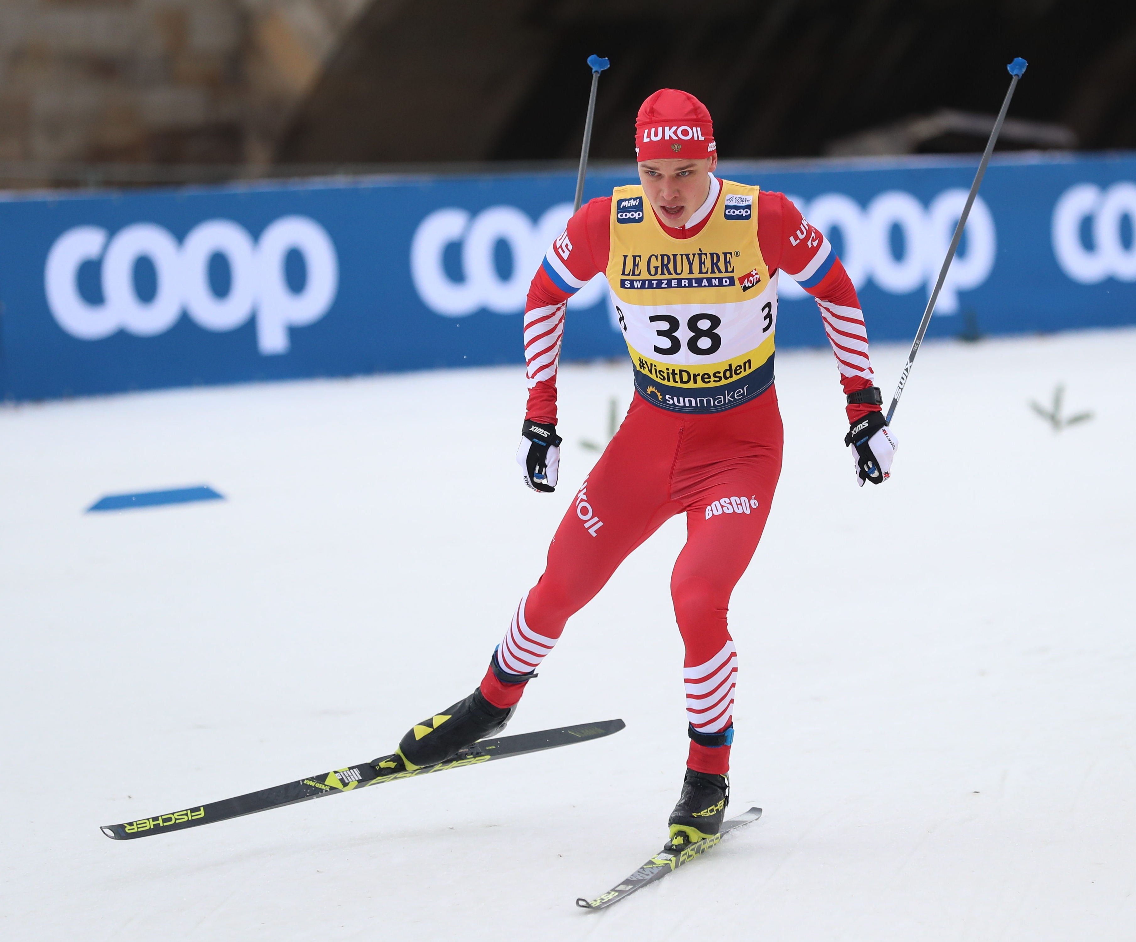 Men's Qualification at the FIS Cross-Country World Cup Dresden 2019 (1.6 km Free Sprint)